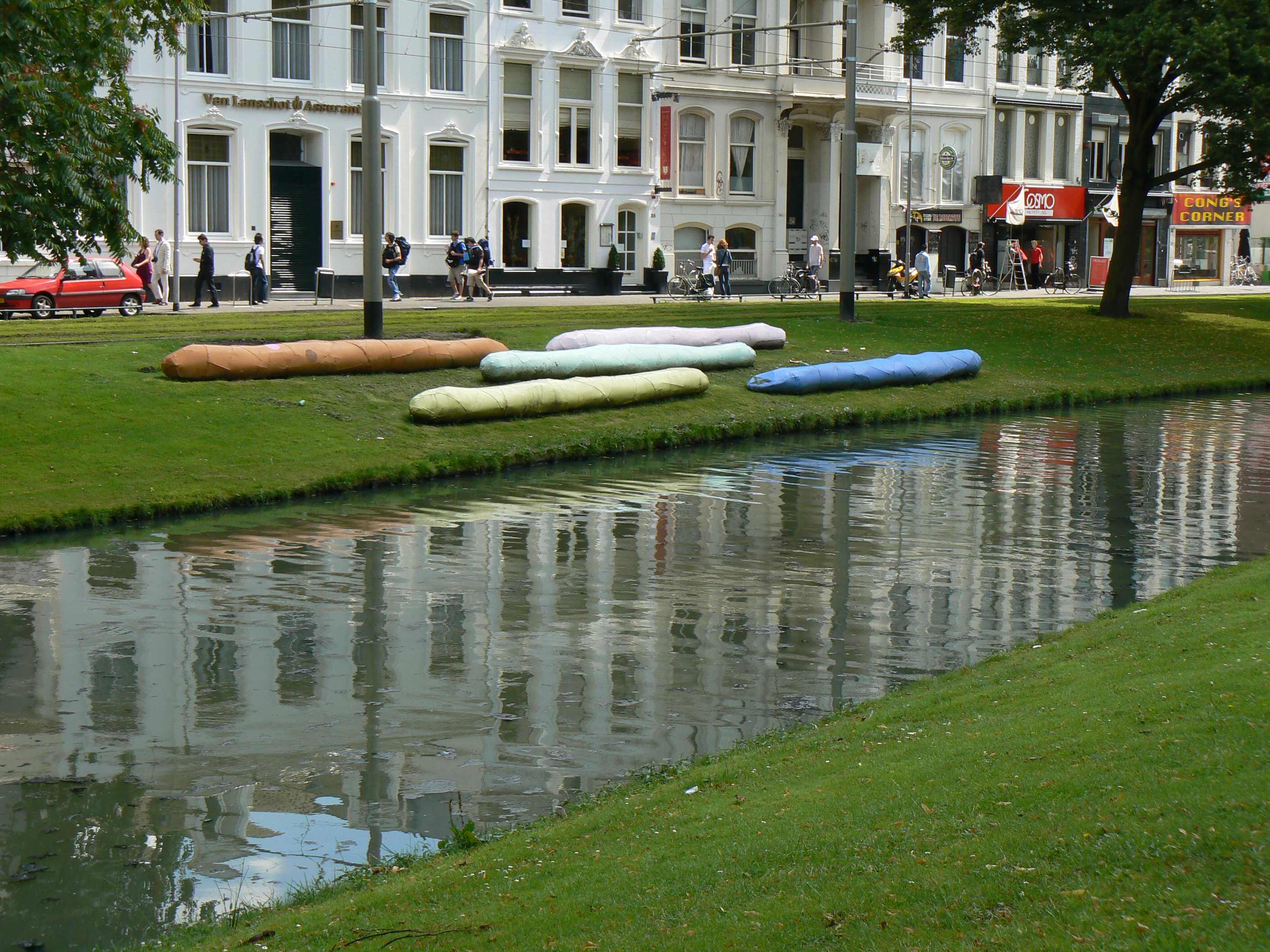 sculpture Qwertz (2001) by Franz West in Rotterdam/The Netherlands